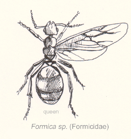 A drawing by Halvard from Norway.